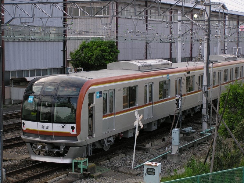 Tokyo Metro Authority type 10000 for Yūrakuchō Line